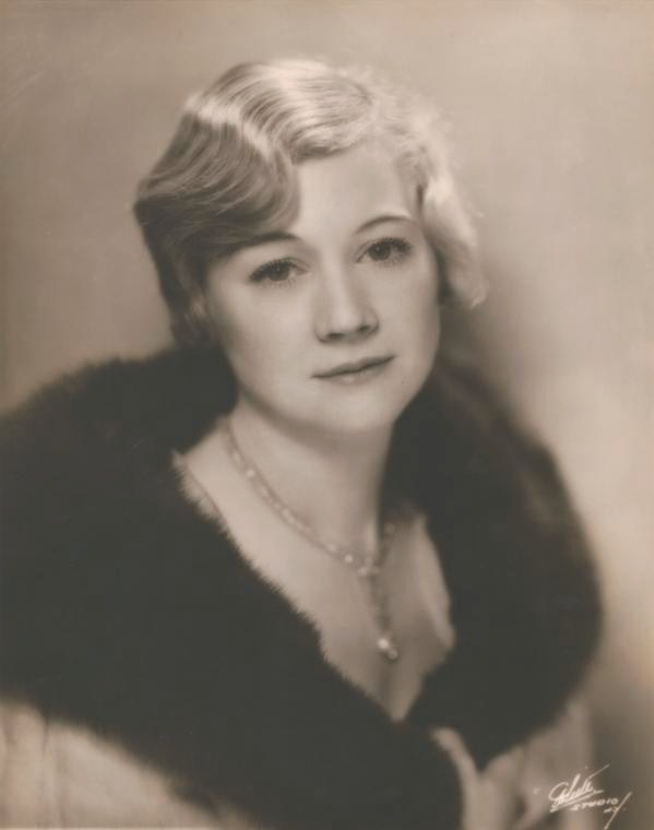 American stage and film actress Queenie Smith - publicity still